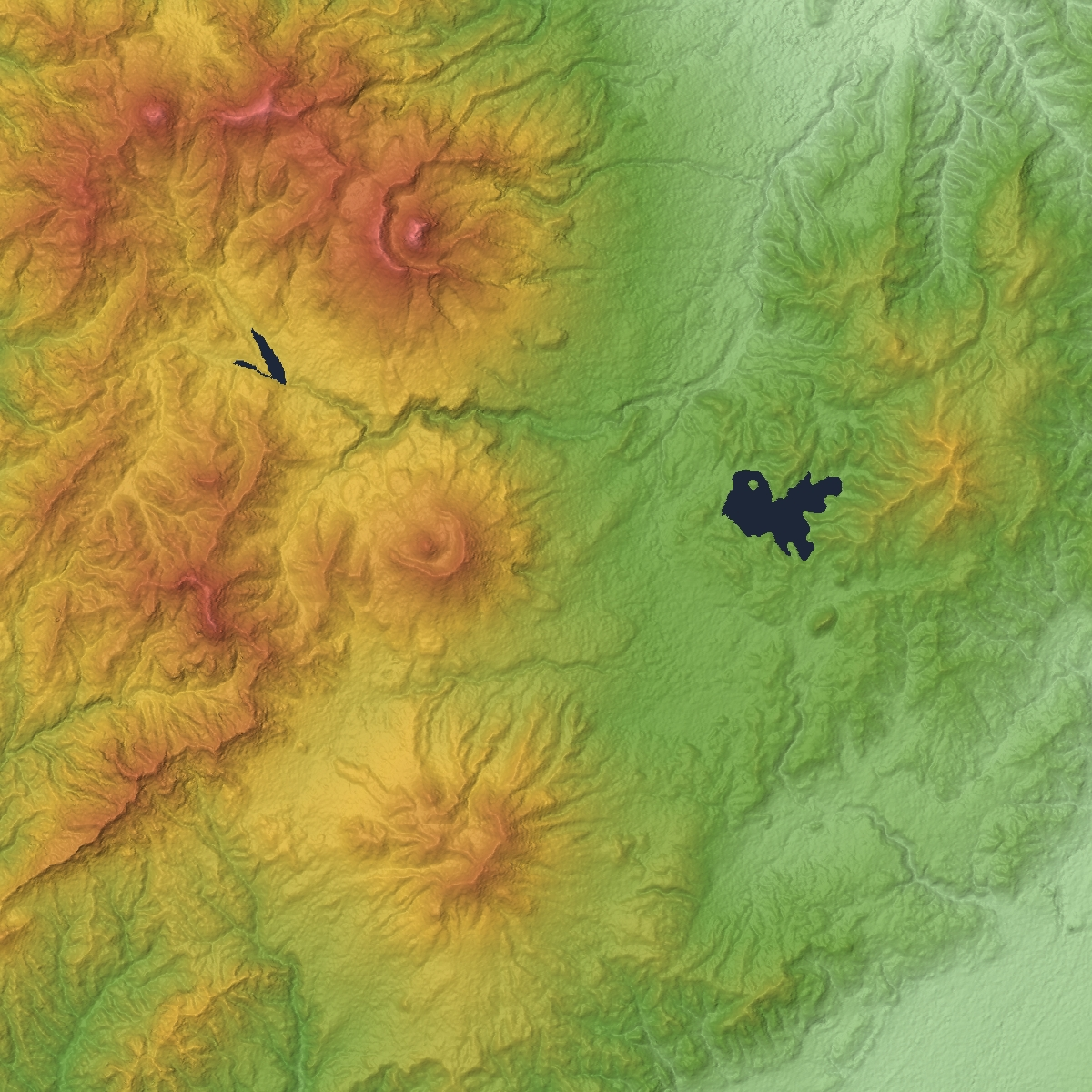 Hokushin Five Mountains (Hokushin-Gogaku) in Honshu, Japan.